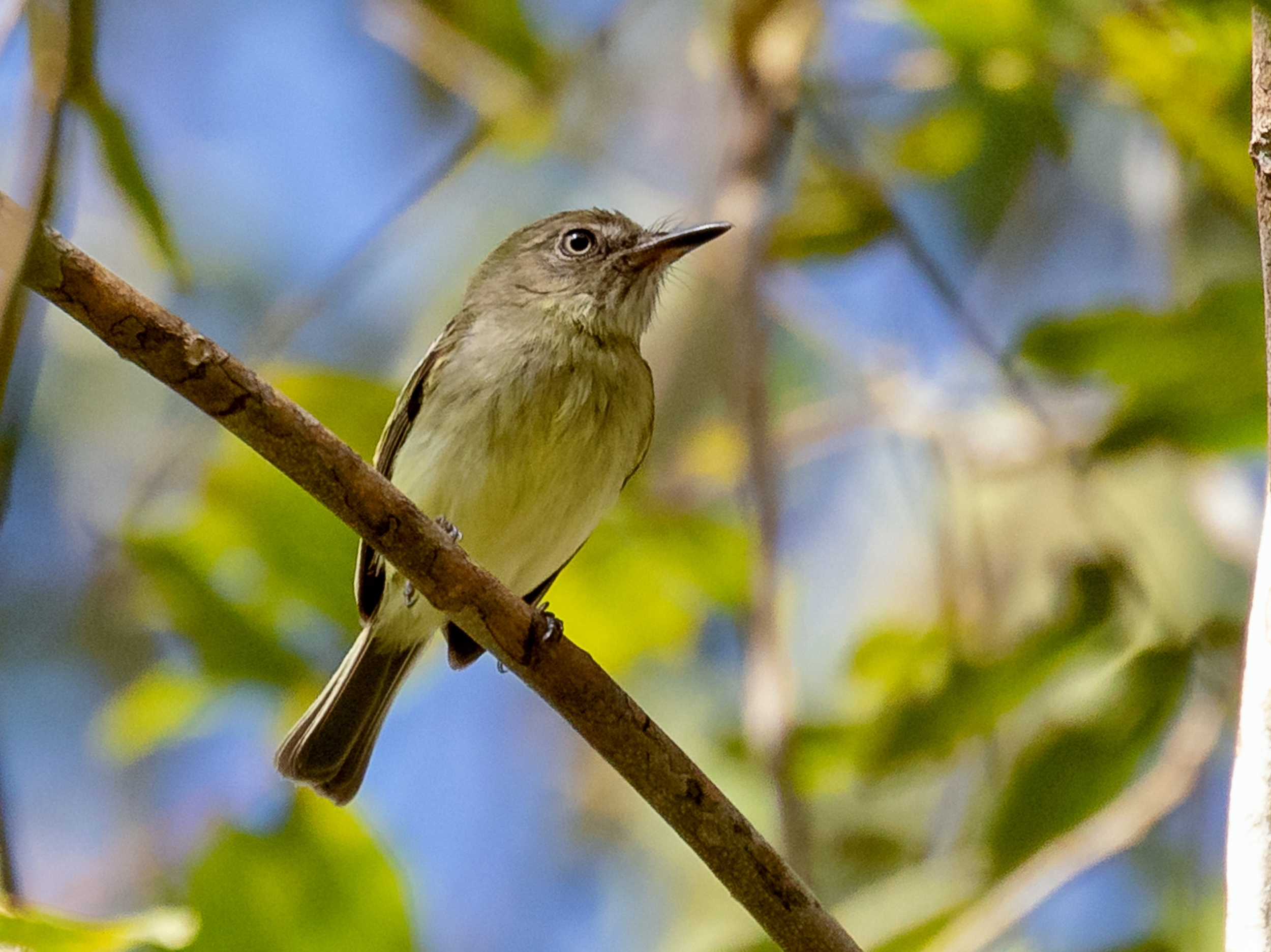 Zimmer's Tody-Tyrant, Carajas National Forest, Pará, Brazil